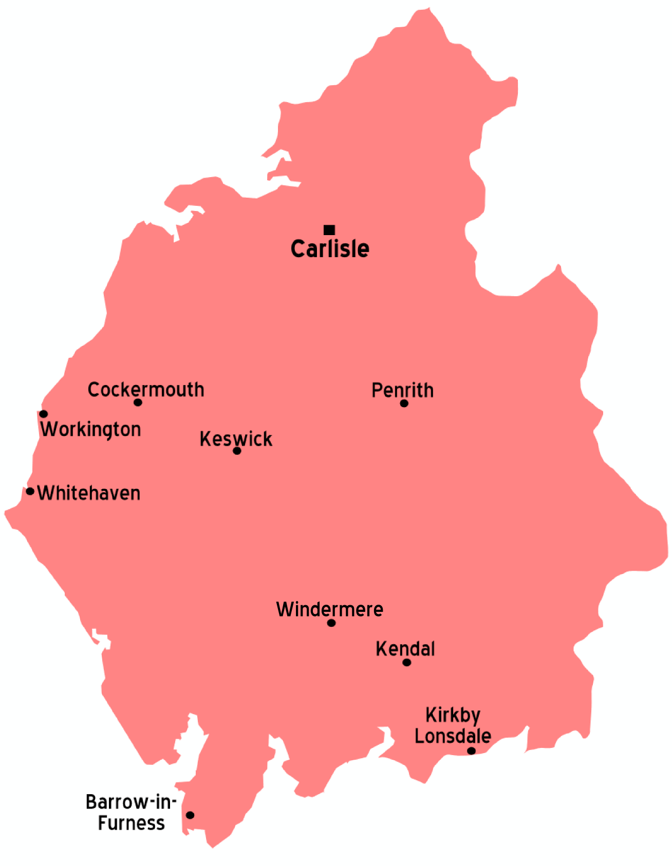 Map of Cumbria map: United Kingdom Map of: United Kingdom This file was derived from: UK map.svg